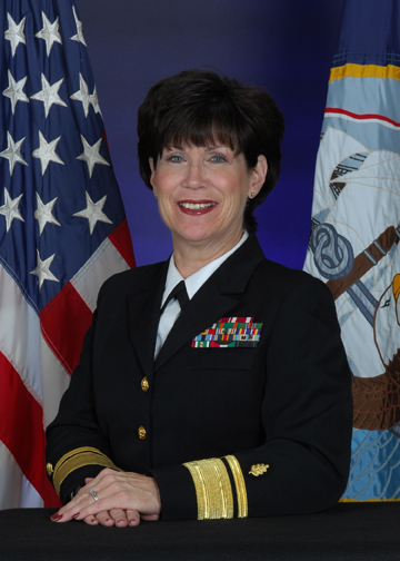 Official photo of Rear Admiral Karen Flaherty